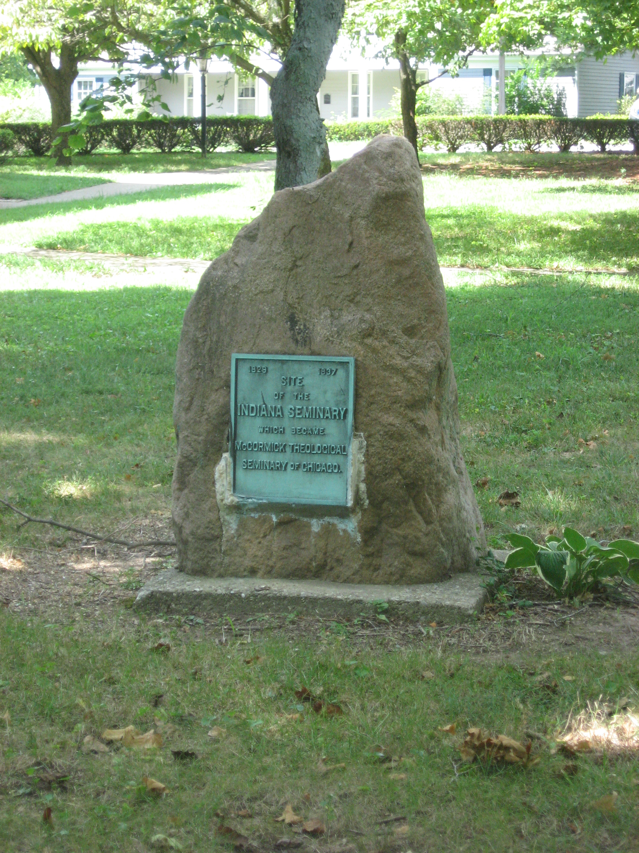 A monument in the eastern lawn of the Hanover Presbyterian Church, located at 174 E. Main Street in Hanover, Indiana, United States. The monument marks the location where McCormick Theological Seminary was founded.